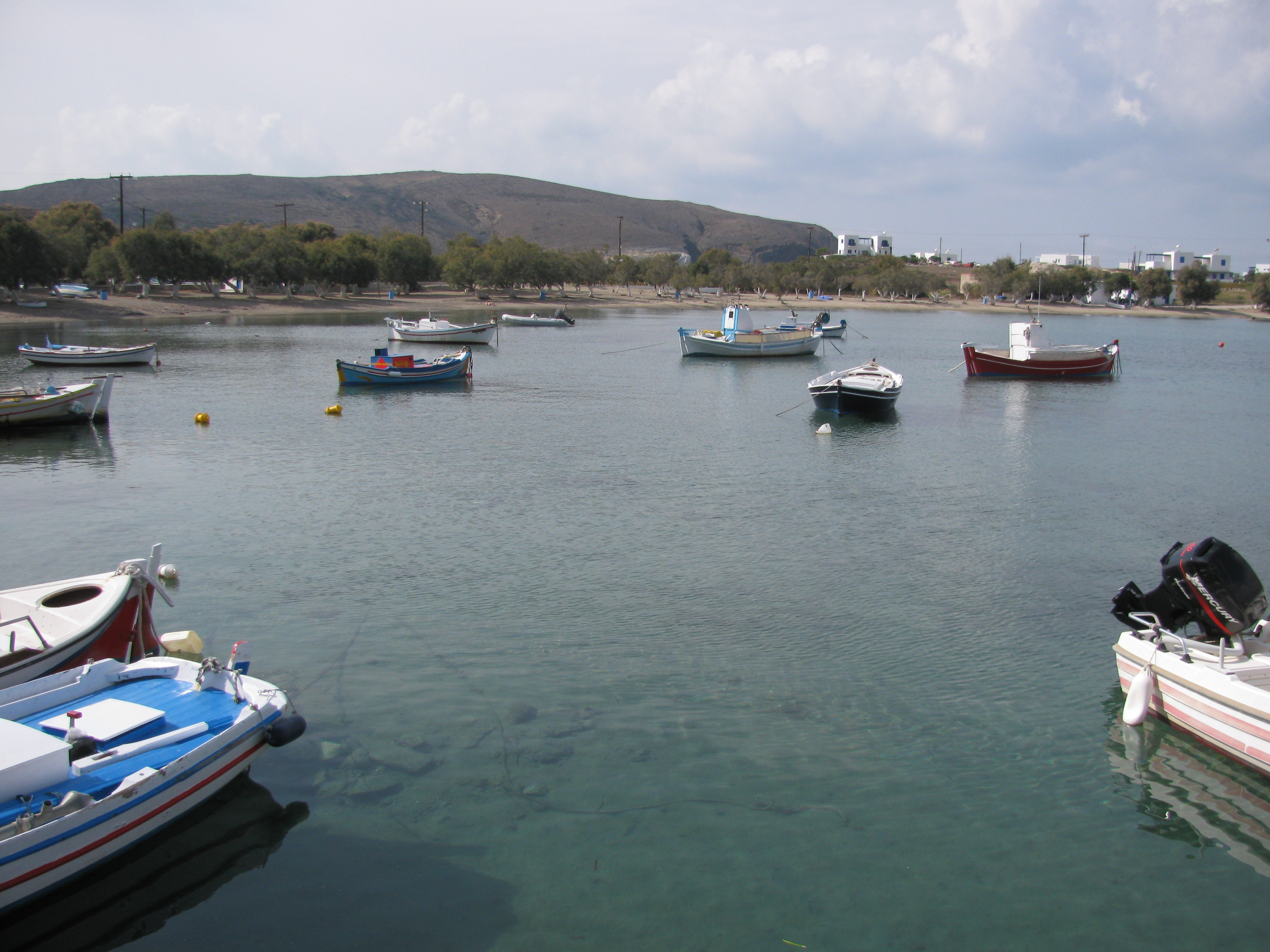 Viw over the bay of Pollonia